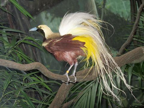 Description: Lesser Bird of Paradise - Source: own work - Location: Bronx Zoo, New York - Author: self, User:Stavenn